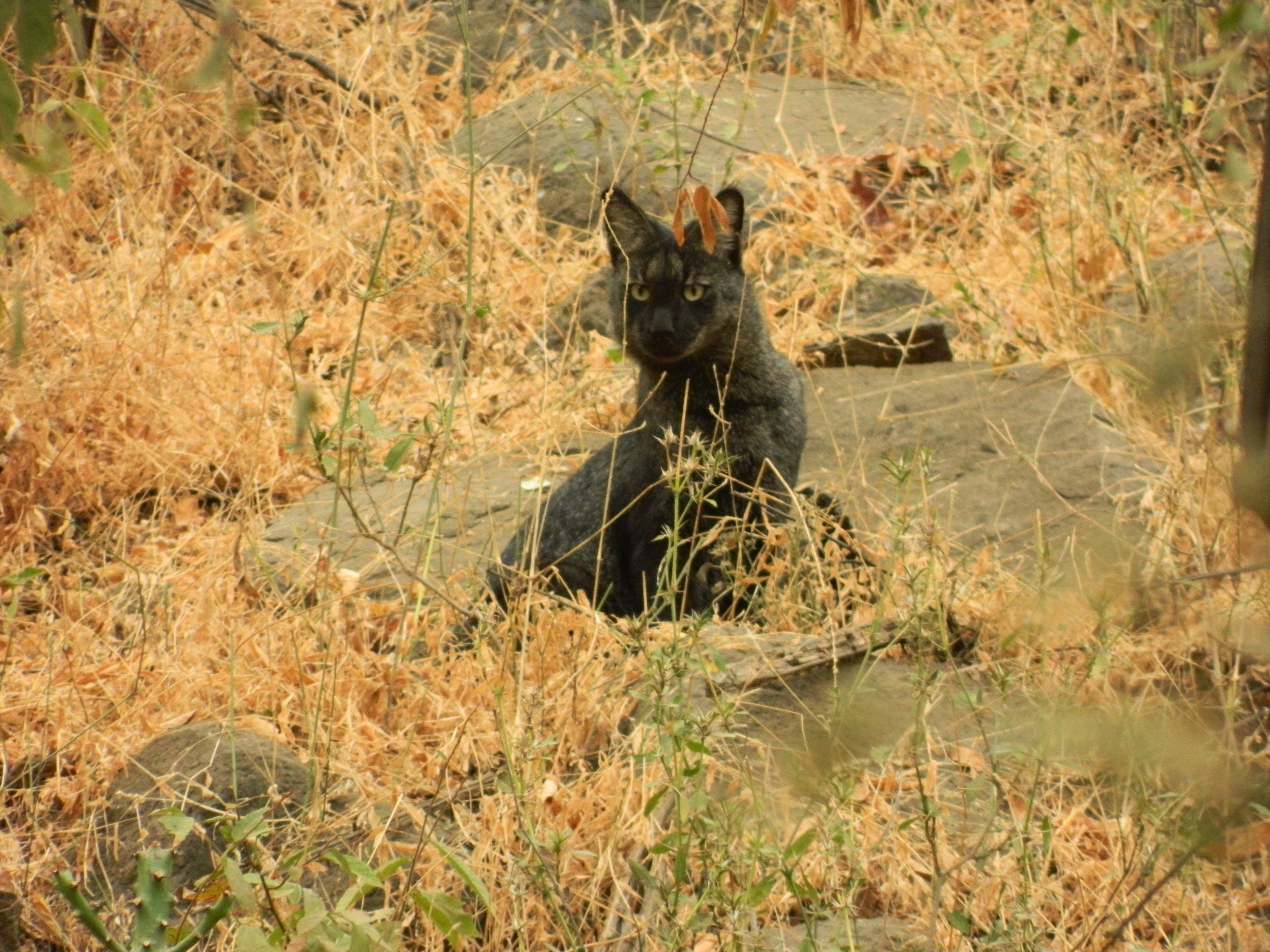 A melanistic jungle cat (Felis chaus prateri) is a rare one to spot and tough to photograph. We were lucky to meet one such beauty at Ranthambhore National Park, Rajasthan.